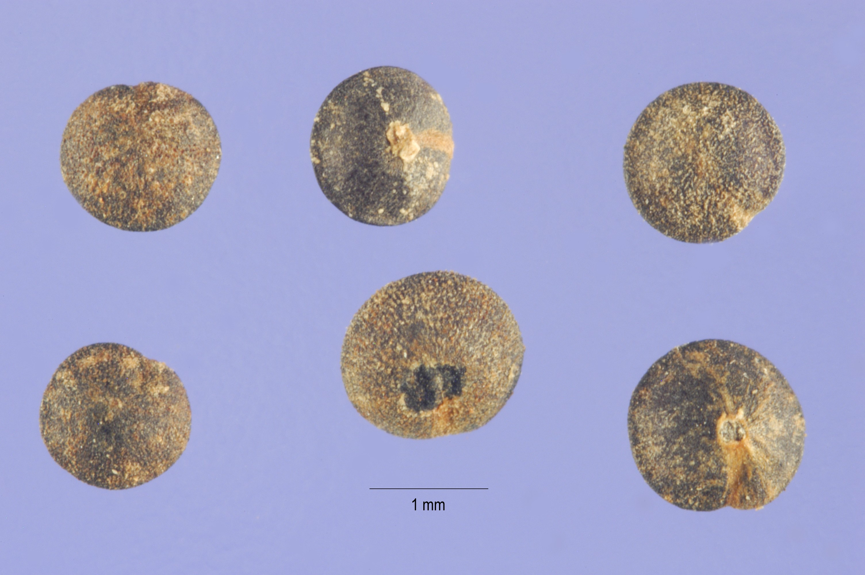 Chenopodium murale seeds